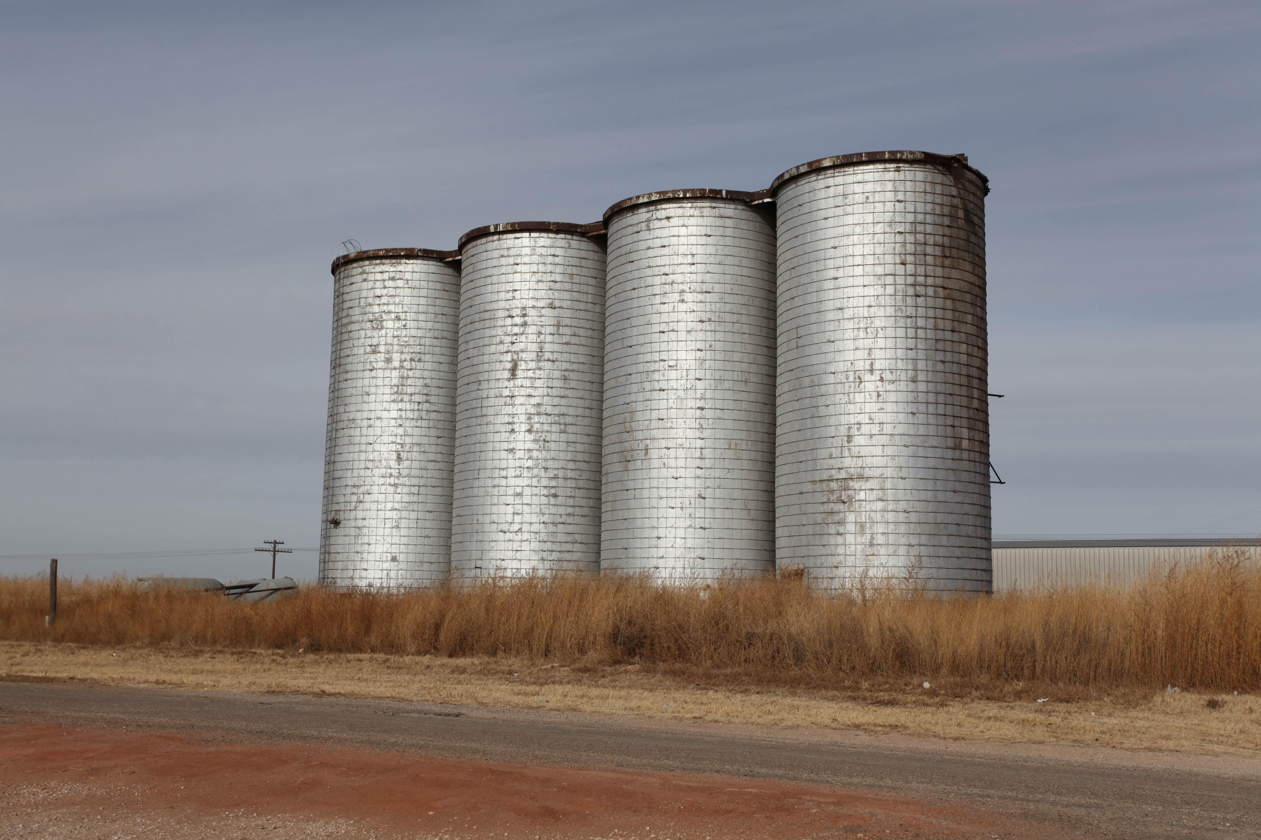 Abandoned grain silos along the tracks at Roundup, Texas.